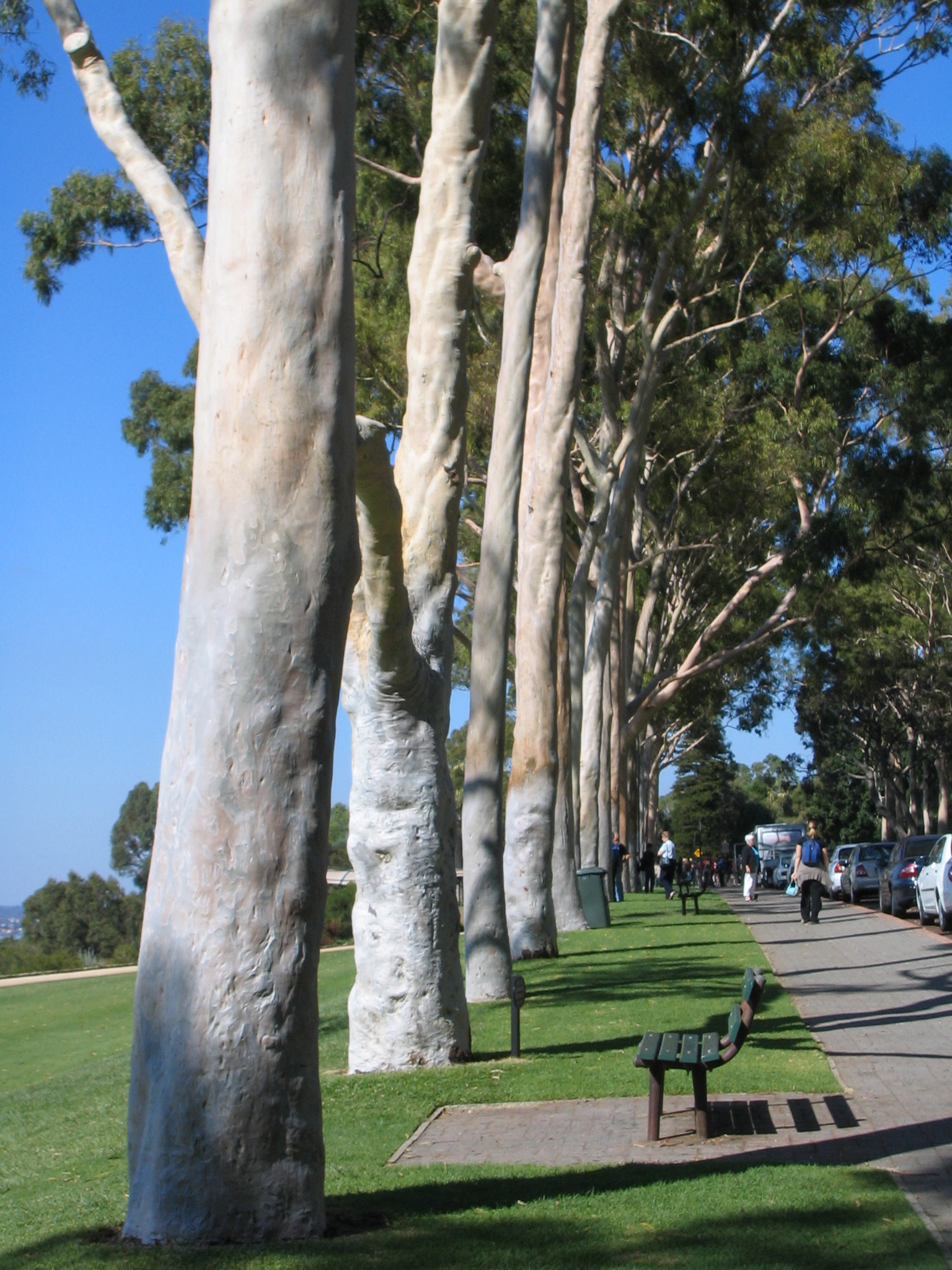 Lemon-scented gums (Corymbia citriodora), planted in 1937. Fraser Avenue, Kings Park, Western Australia.